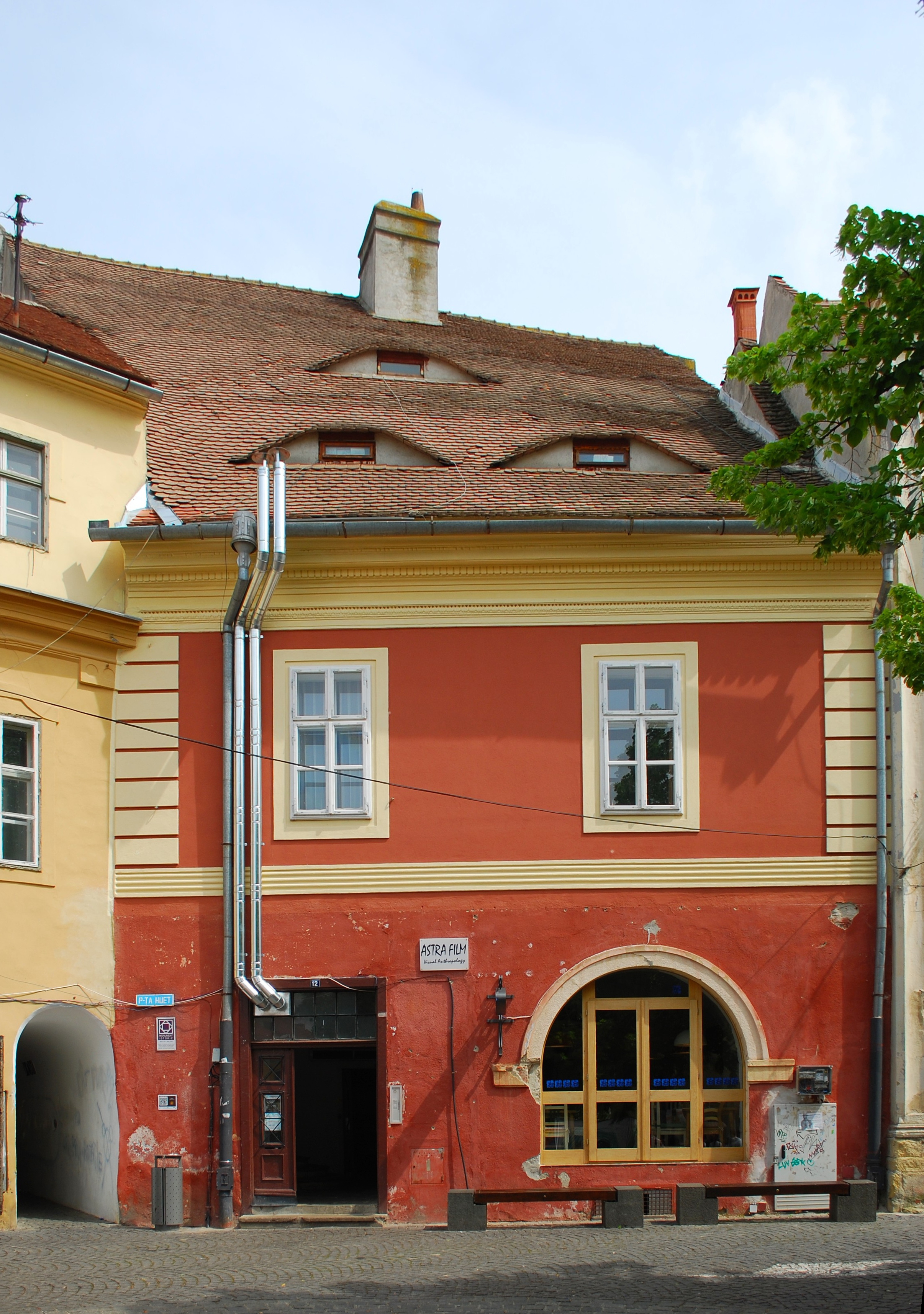 Astra Film studio in Sibiu, Romania.